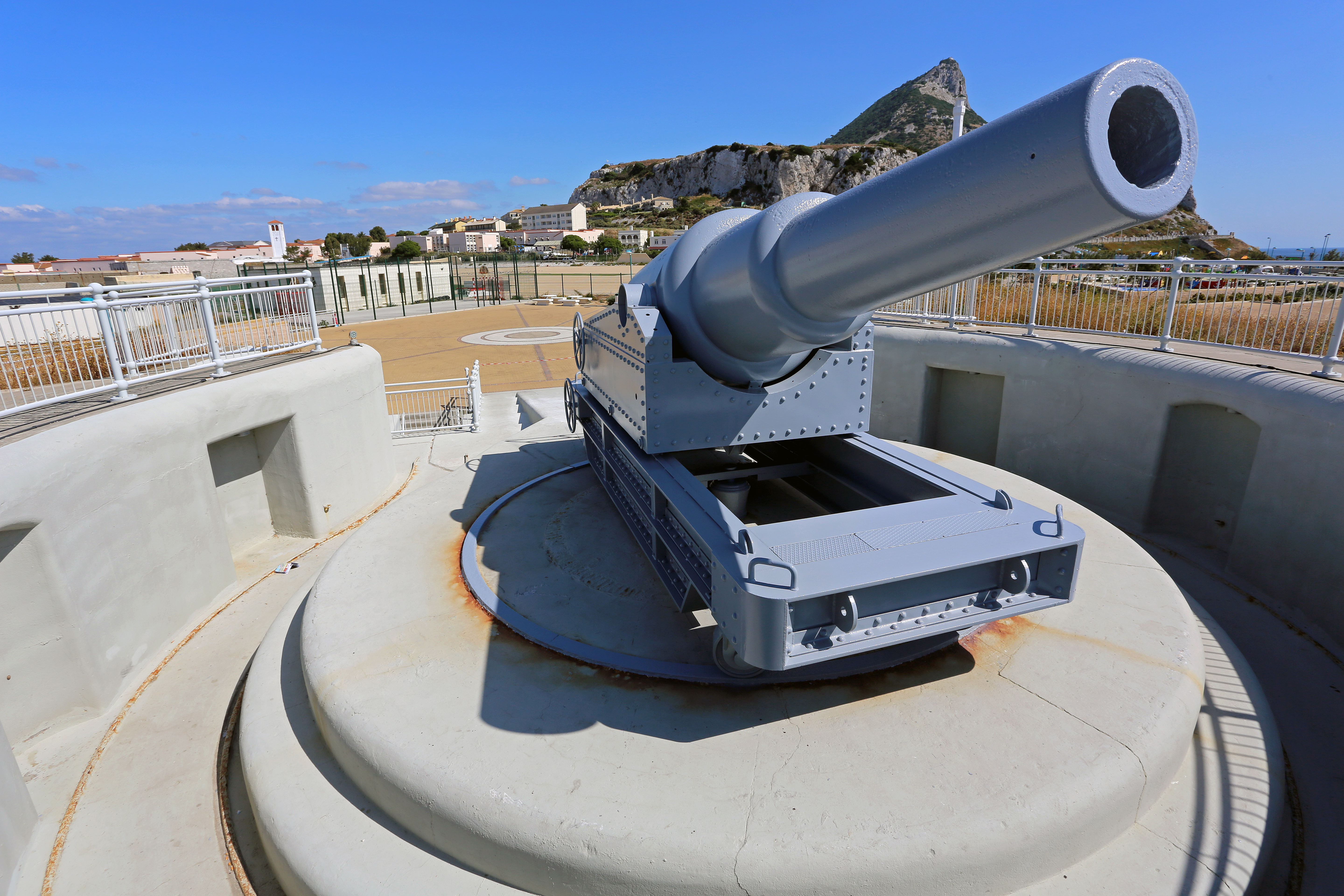 Harding's battery was originally built in 1859. It had been abandoned and buried under a mound of sand for years that served as a Tourists' Observation Point of the Straits of Gibraltar. It t was unearthed in 2010 and refurbished as part of a makeover of the whole of the Europa Point area.